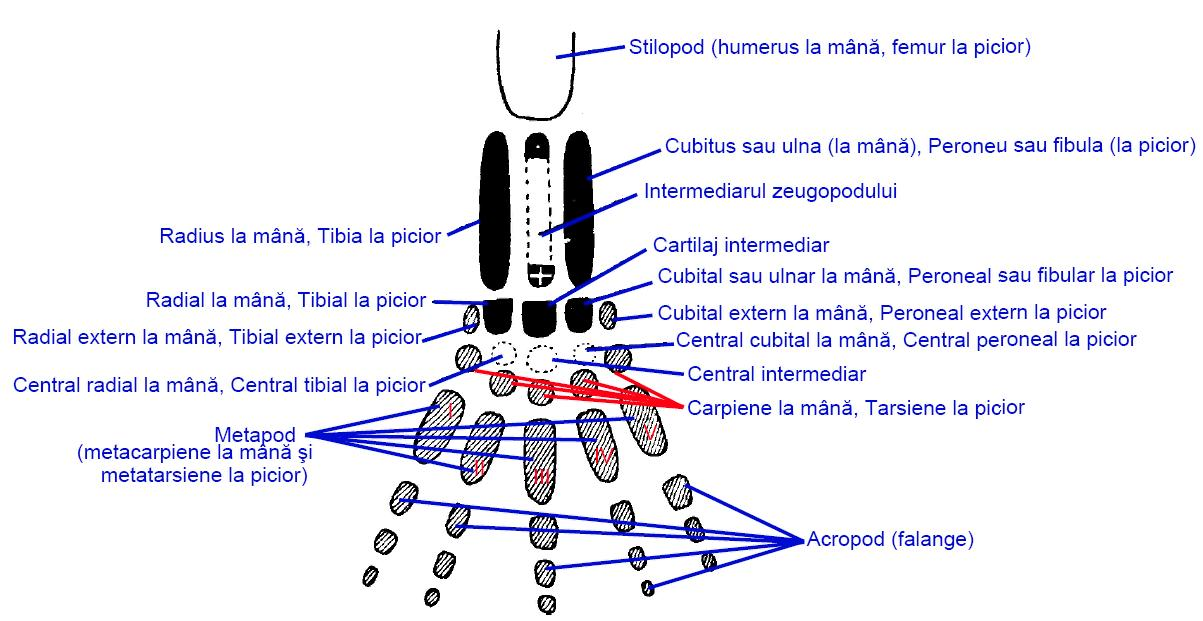 Tetrapod limb